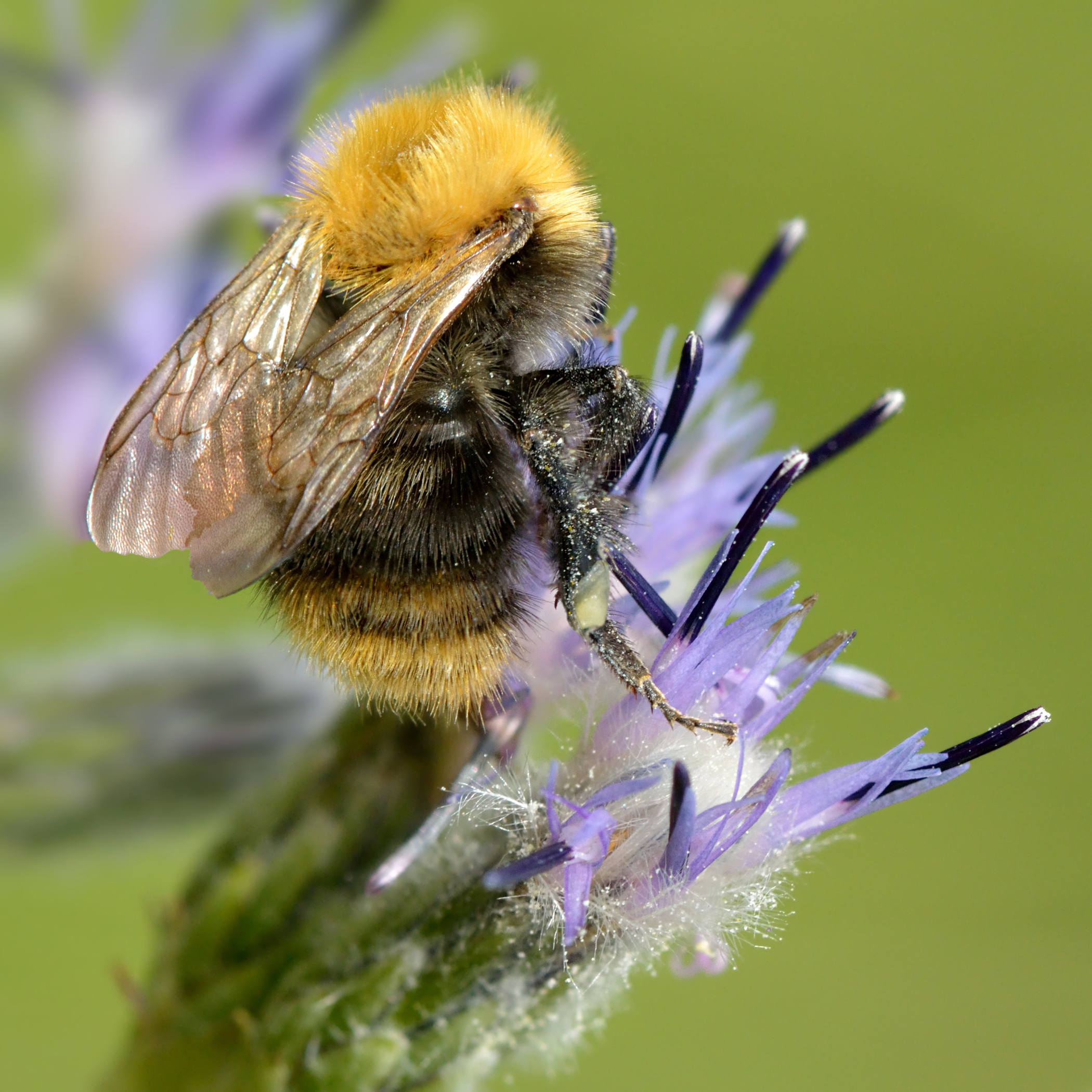 Common carder bee (Bombus pascuorum) is foraging on the estonian saw-wort (Saussurea alpina subsp. esthonica). Niitvälja Bog, Northwestern Estonia.